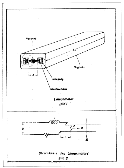 Top: The barrel of a rail gun. Bottom: Schematic of the linear motor's electric circuit.